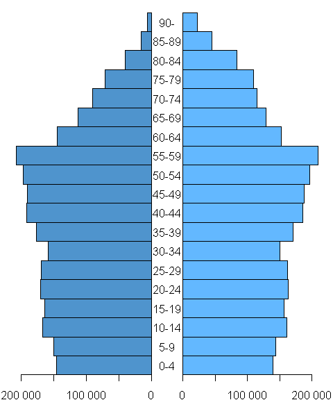 Finnish population by age and gender, end of 2005 (Men: left, dark blue / Women: right, light blue)